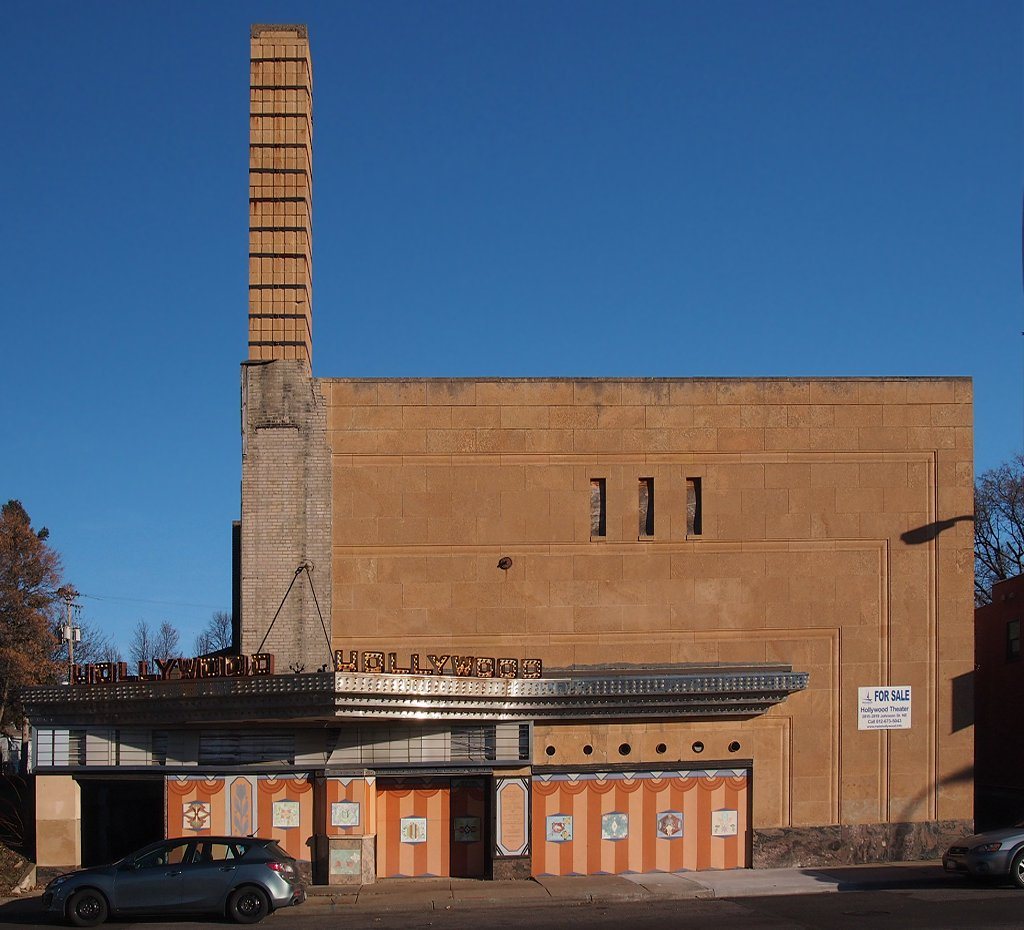 Hollywood Theater, 2815 Johnson Street NE, Minneapolis, Minnesota, USA. Viewed from the west.